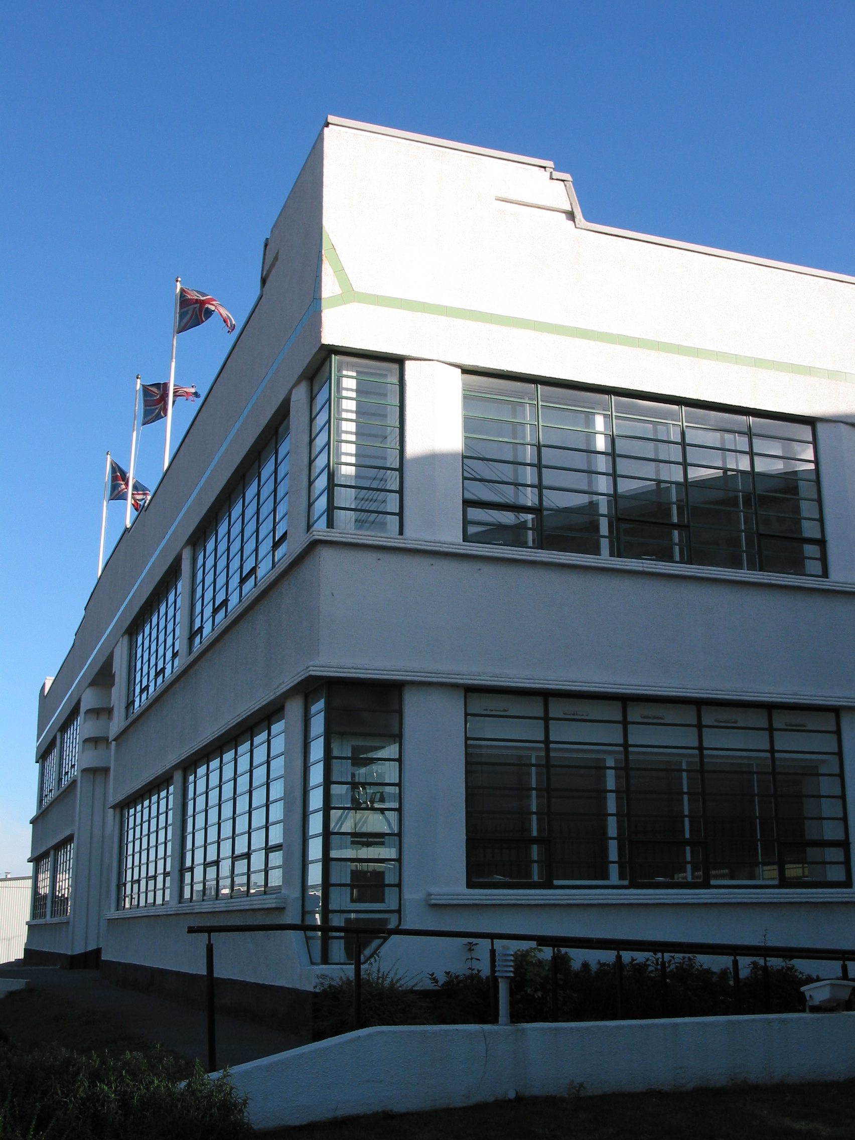 Picture of the North-West corner of the Art Deco Coty Cosmetics factory, designed by the Wallis, Gilbert and Partners partnership in 1932, Great West Road, Brentford, UK photo by myself Date and Time 2005:01:23 13:37:12 Exposure Time 1/640 sec. F Number f/4.0 Copyright © 2005 WLD